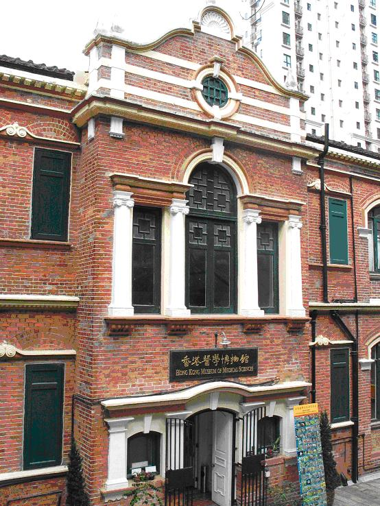 took at 26/2/2004 by KC Cheung